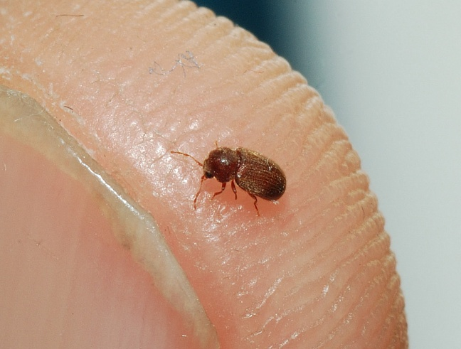 Drugstore beetle. Note the size of the beetle as compared to fingernail. Photograph by Kamran Iftikhar.